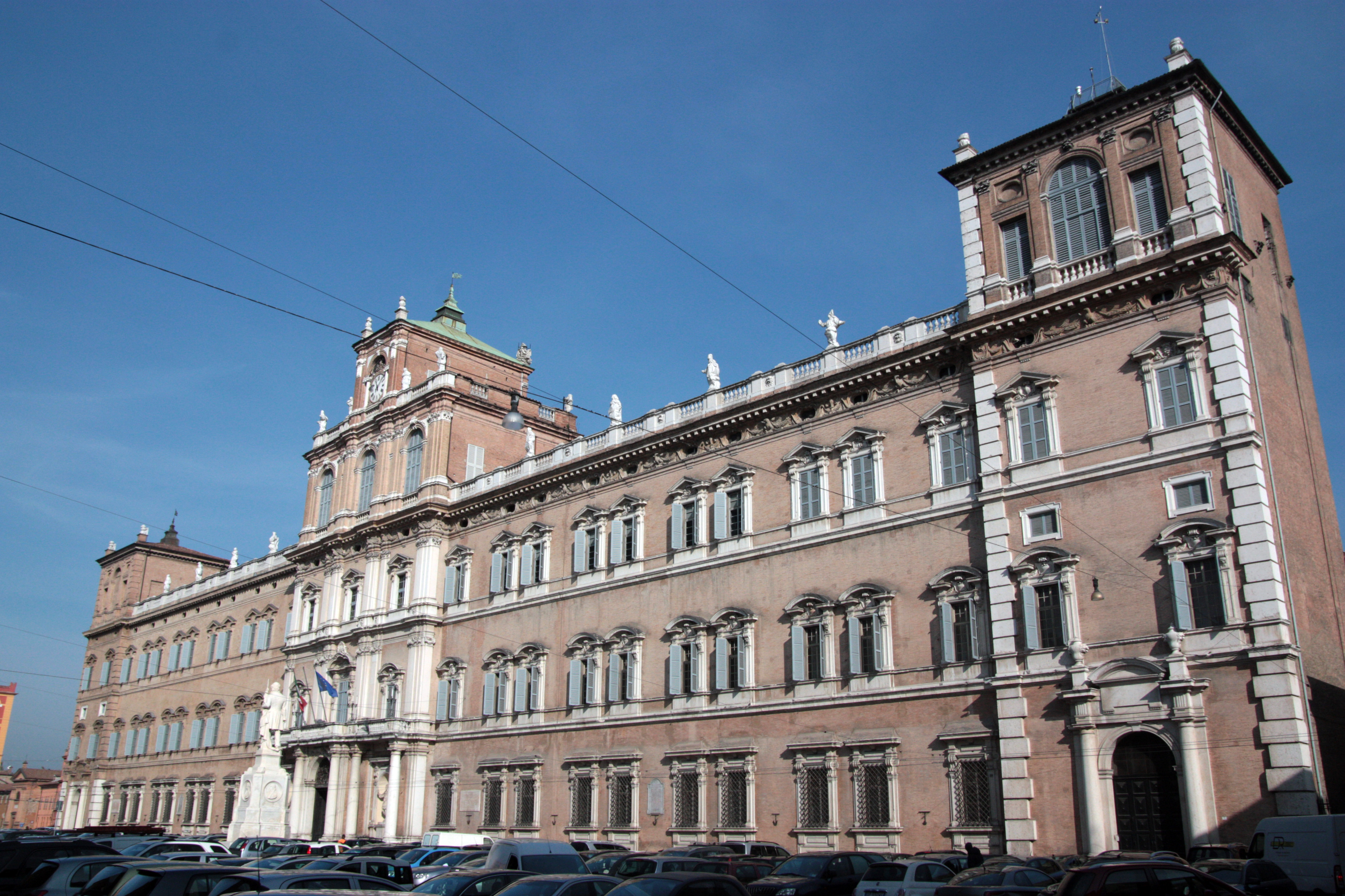 Ducal Palace in Modena. Today the palace is the headquarters of the Military Academy. The photo has been taken in 2010 by a team working for the Municipality of Modena (Italy).